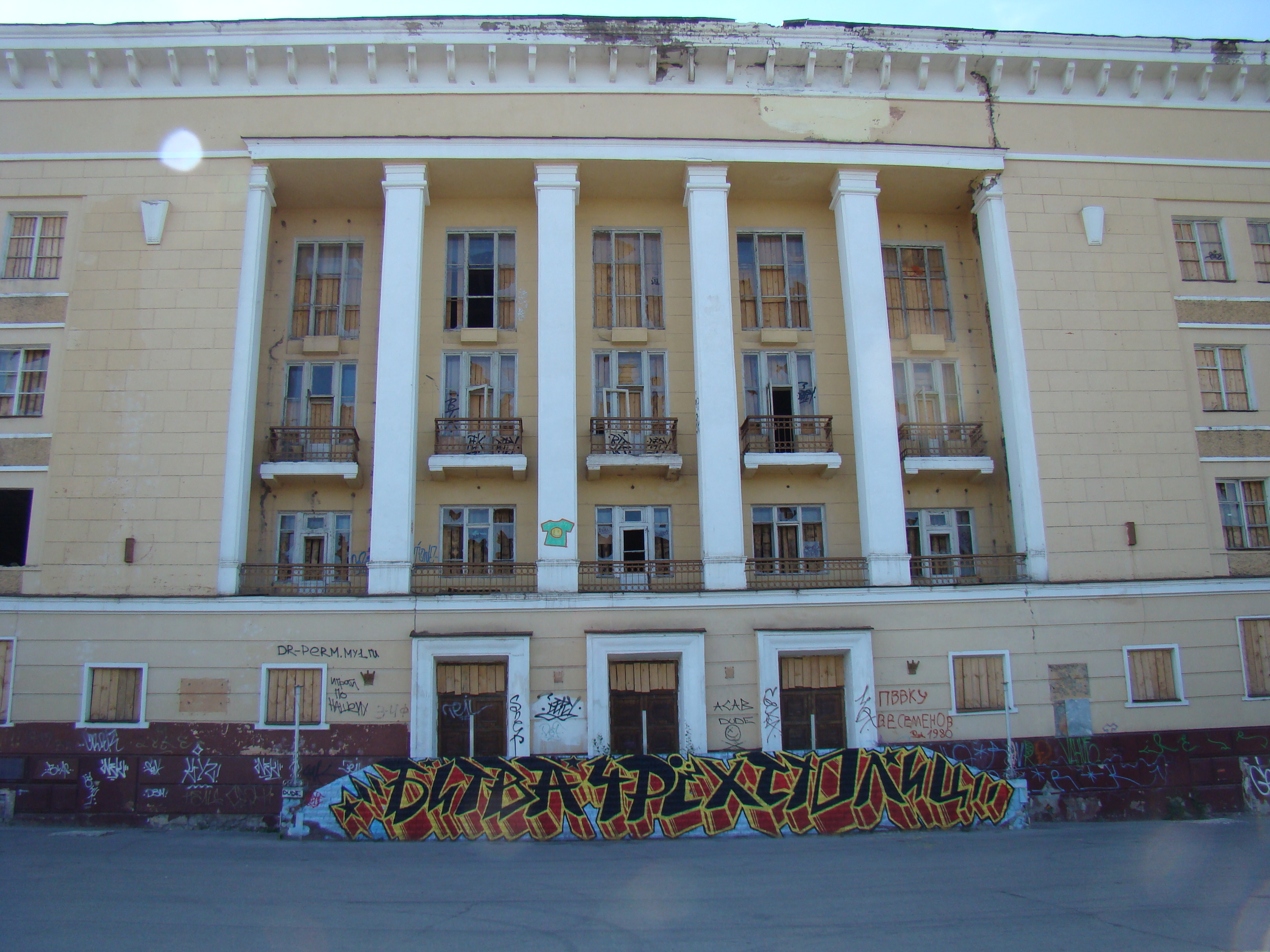 Building of former Missile (Rocket) Force Institute in Perm